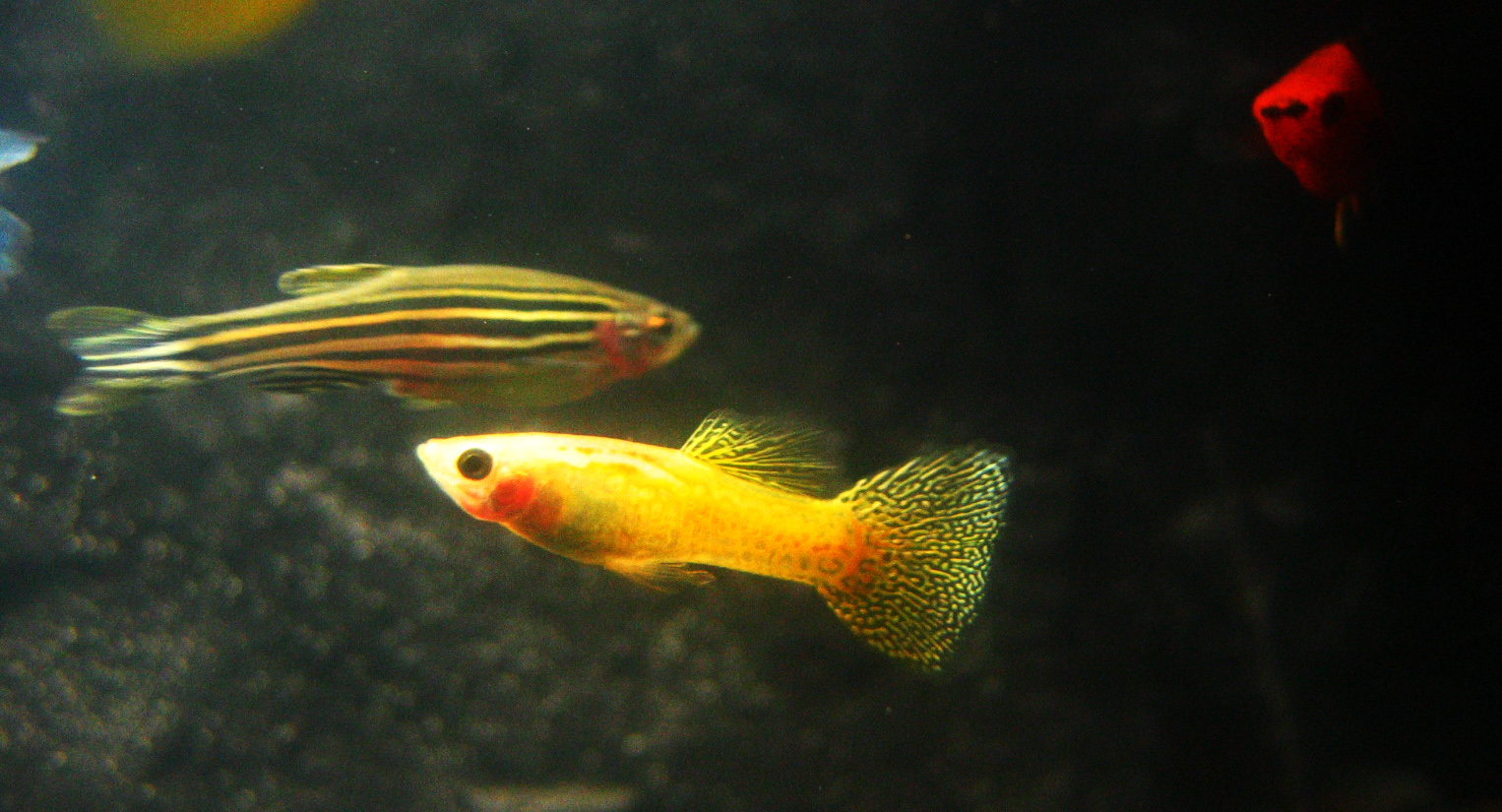 A female zebrafish (Cyprinidae: Danio rerio) and a male guppy (Poeciliidae: Poecilia reticulata). To the right the head and pelvic fins of a Southern platyfish (Poeciliidae: Xiphophorus maculatus).